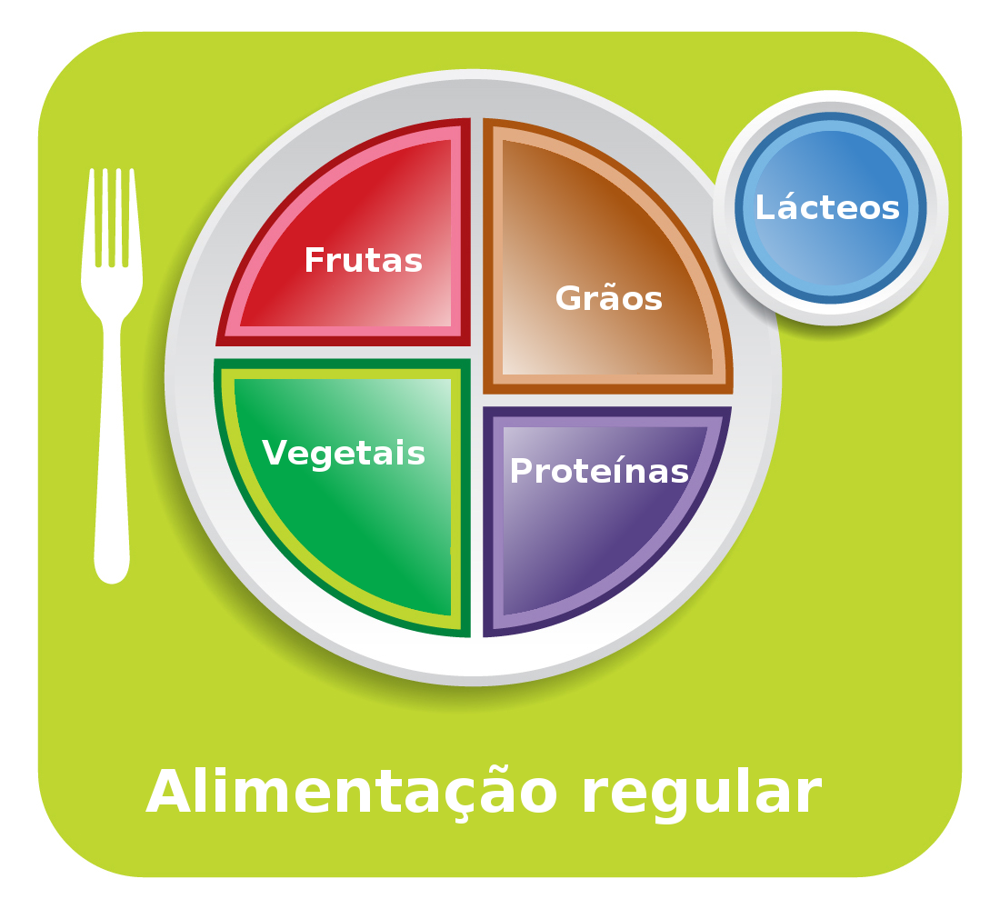 my plate